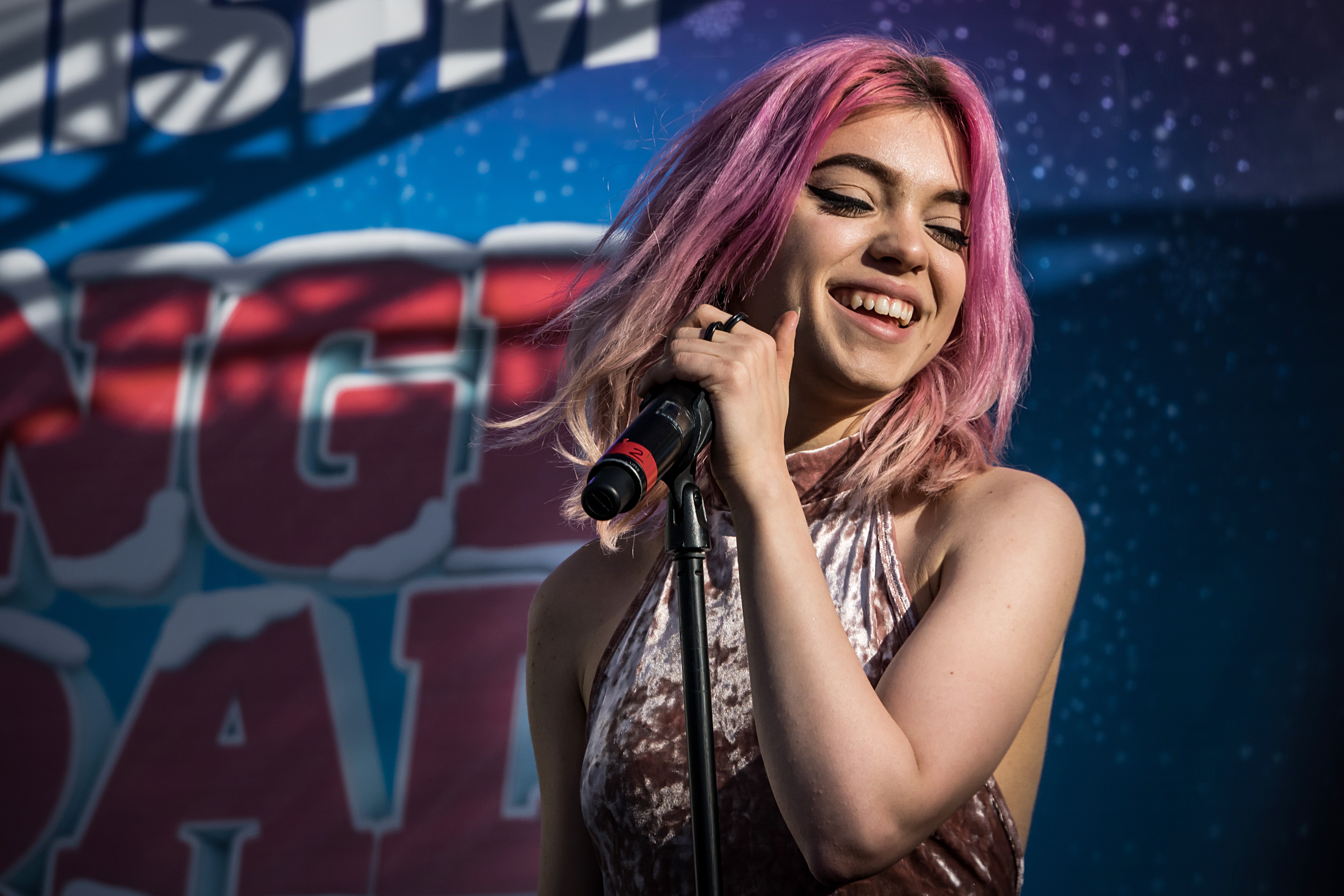 Hey Violet performing live at the 102.7 KIIS FM Jingle Ball Village, outside Staples Center in downtown Los Angeles, California, on Friday, December 2, 2016.